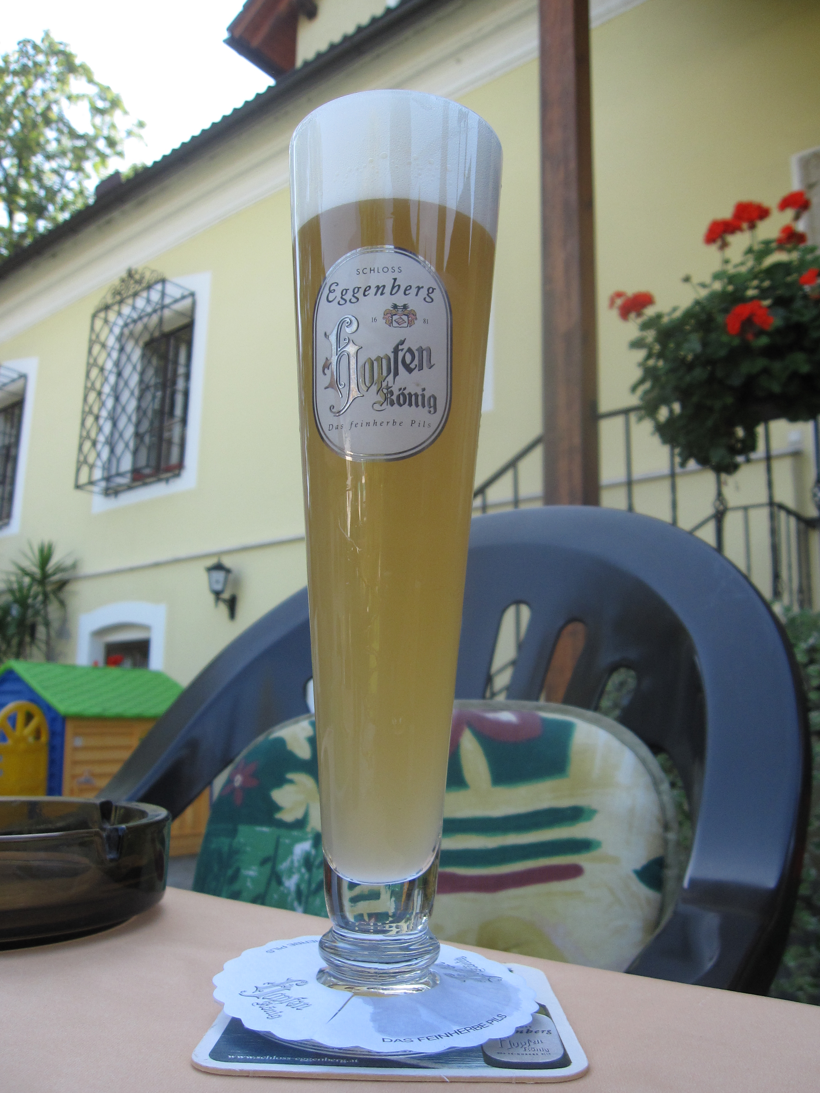 A glass of Hopfenkönig from Brauerei Schloss Eggenberg in Vorchdorf, Upper Austria, served on draft at Braugasthof Pesendorfer, across the road from the brewery.